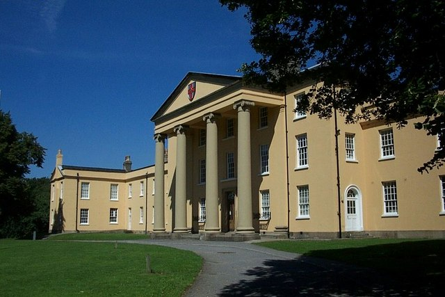 The Lawn Asylum, Lincoln Castle, England